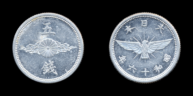 5sen-S16